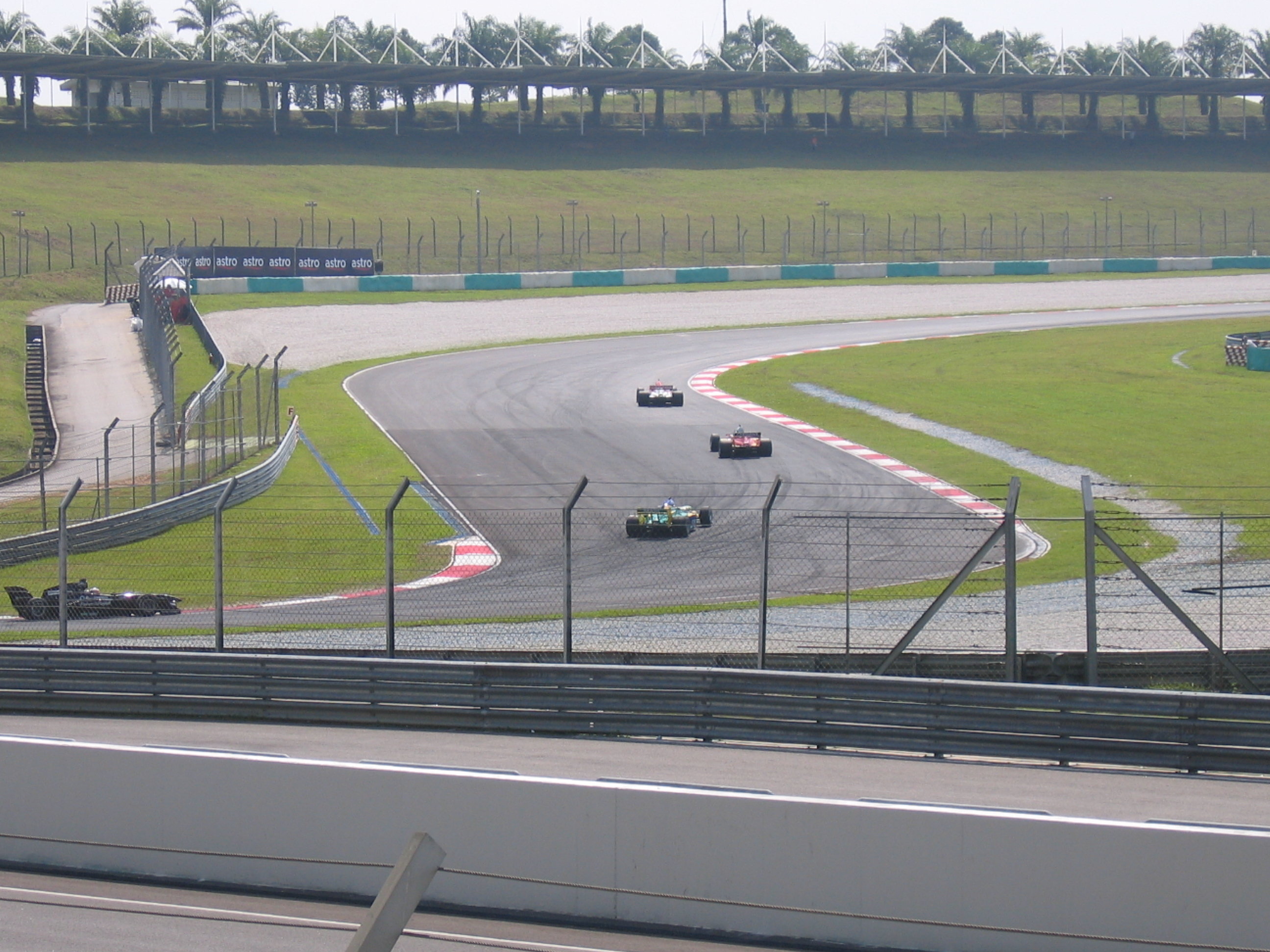 A1GP Qualifying.